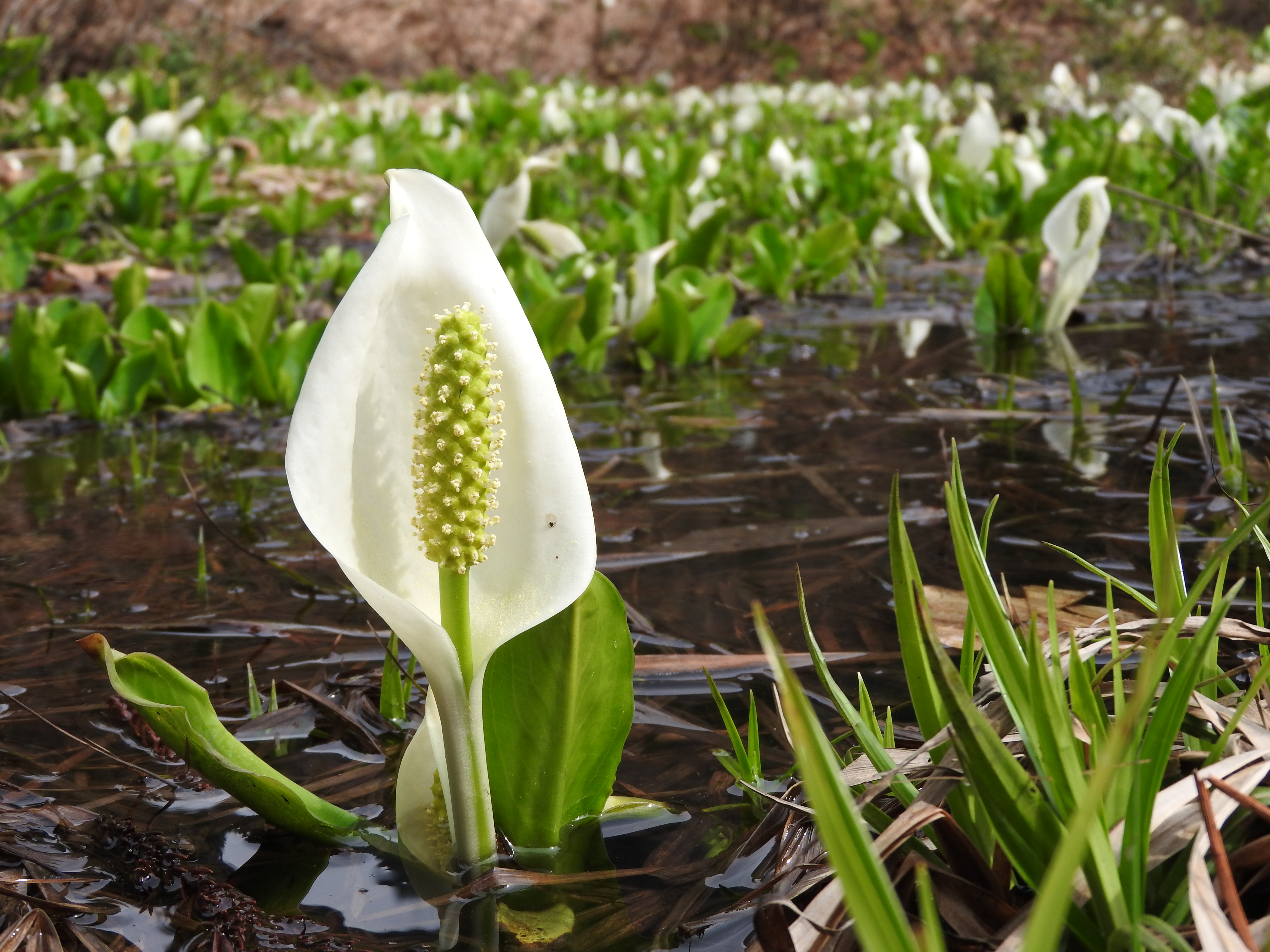 Lake of asian skunk-cabbages (Lysichiton camtschatcensis) at Shiramine-mura (Japan) (integrated to Hakusan-shi since 2005)